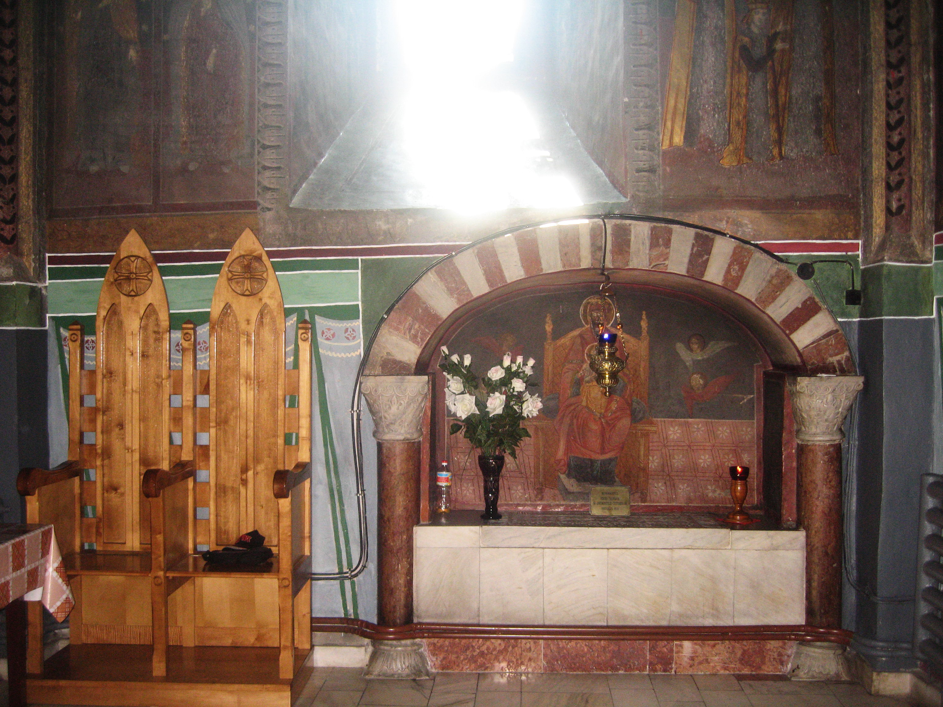 Slatina Monastery